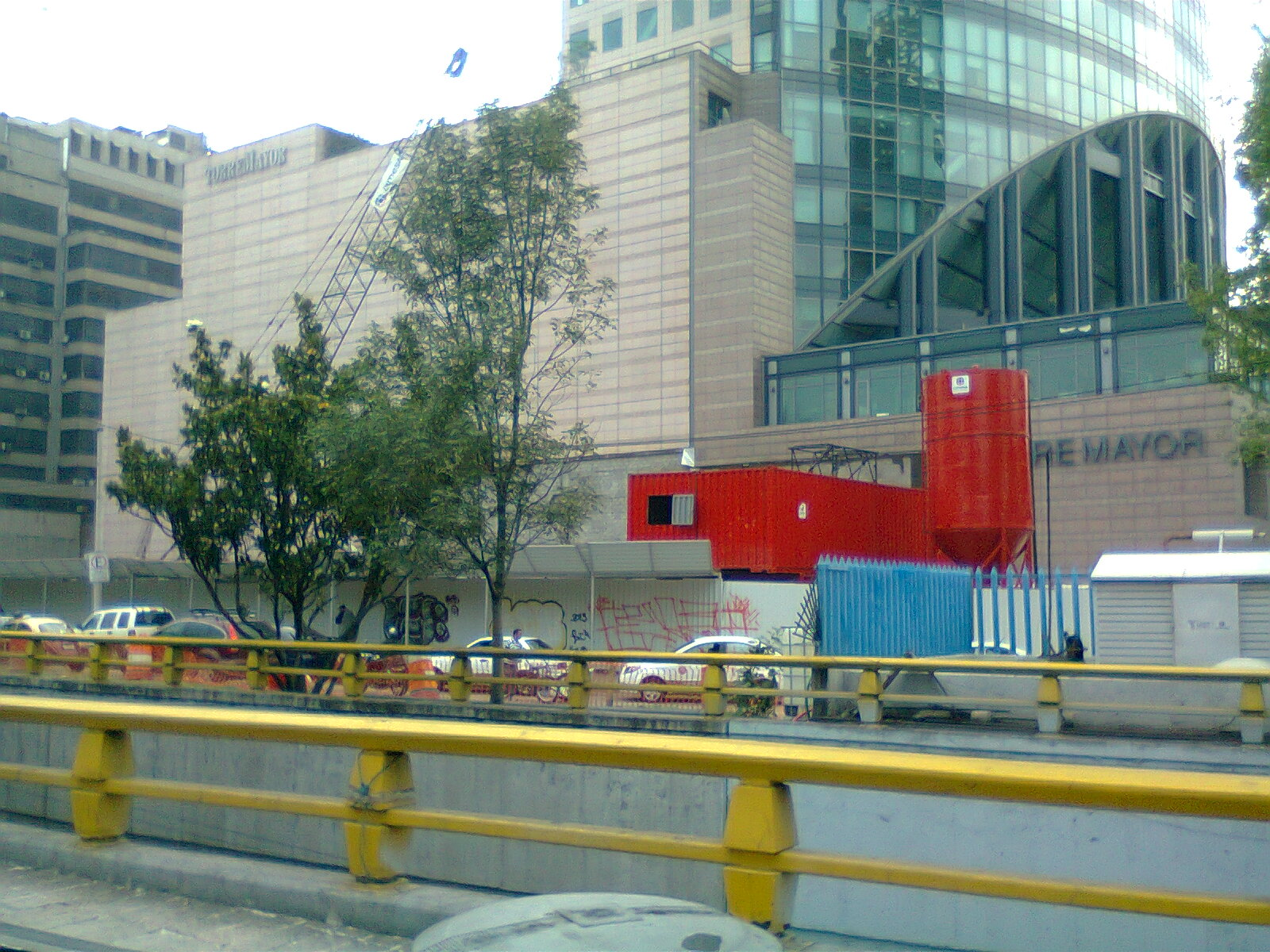 TorreC.